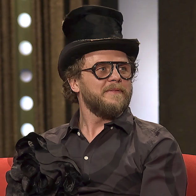 Czech actor Rostislav Novák Jr.